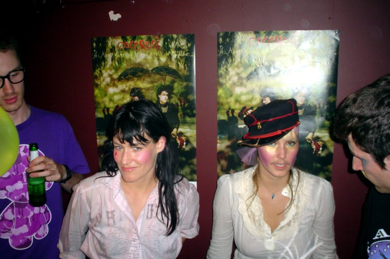 Sierra (left) and Bianca Casady in the freak folk and experimental band CocoRosie, 2007.